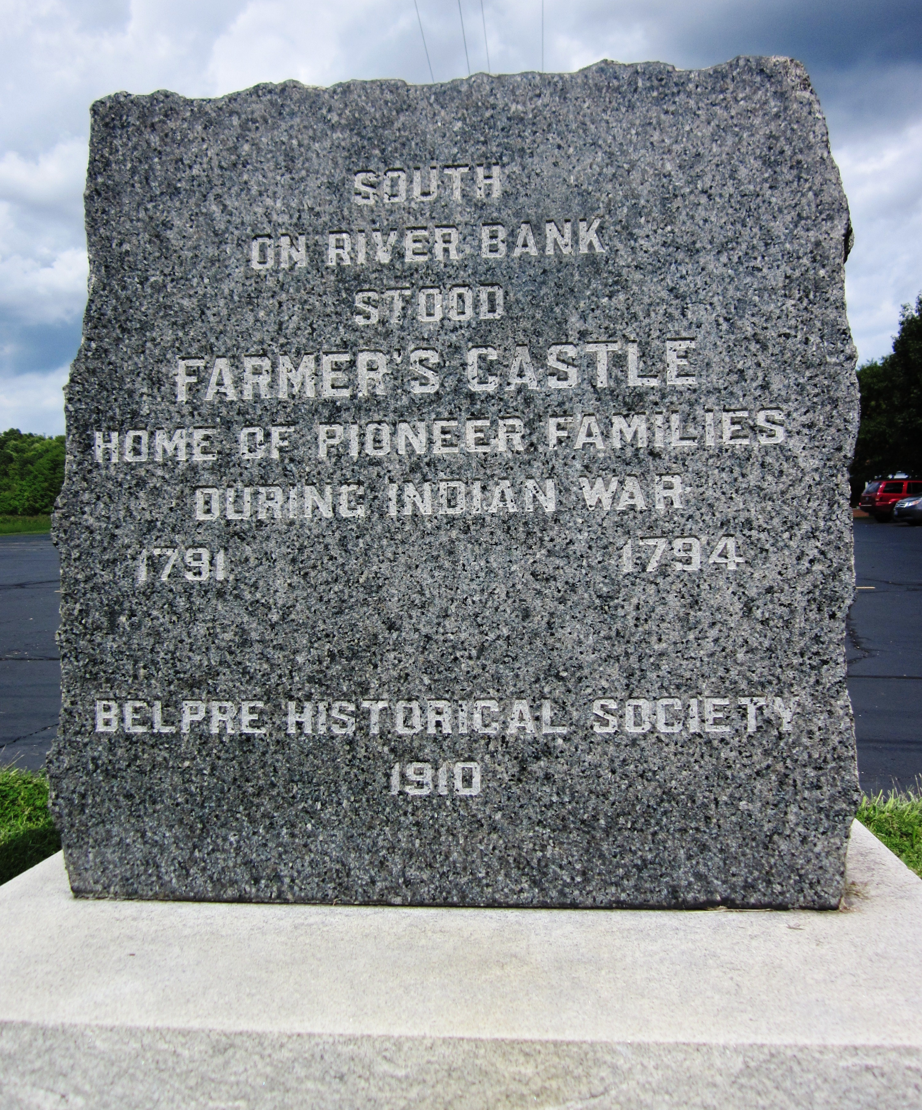 Farmer's Castle marker at Belpre, Ohio, September 2012. I took this photo, and I release to the public domain. ColWilliam (talk) 18:28, 13 September 2012 (UTC)